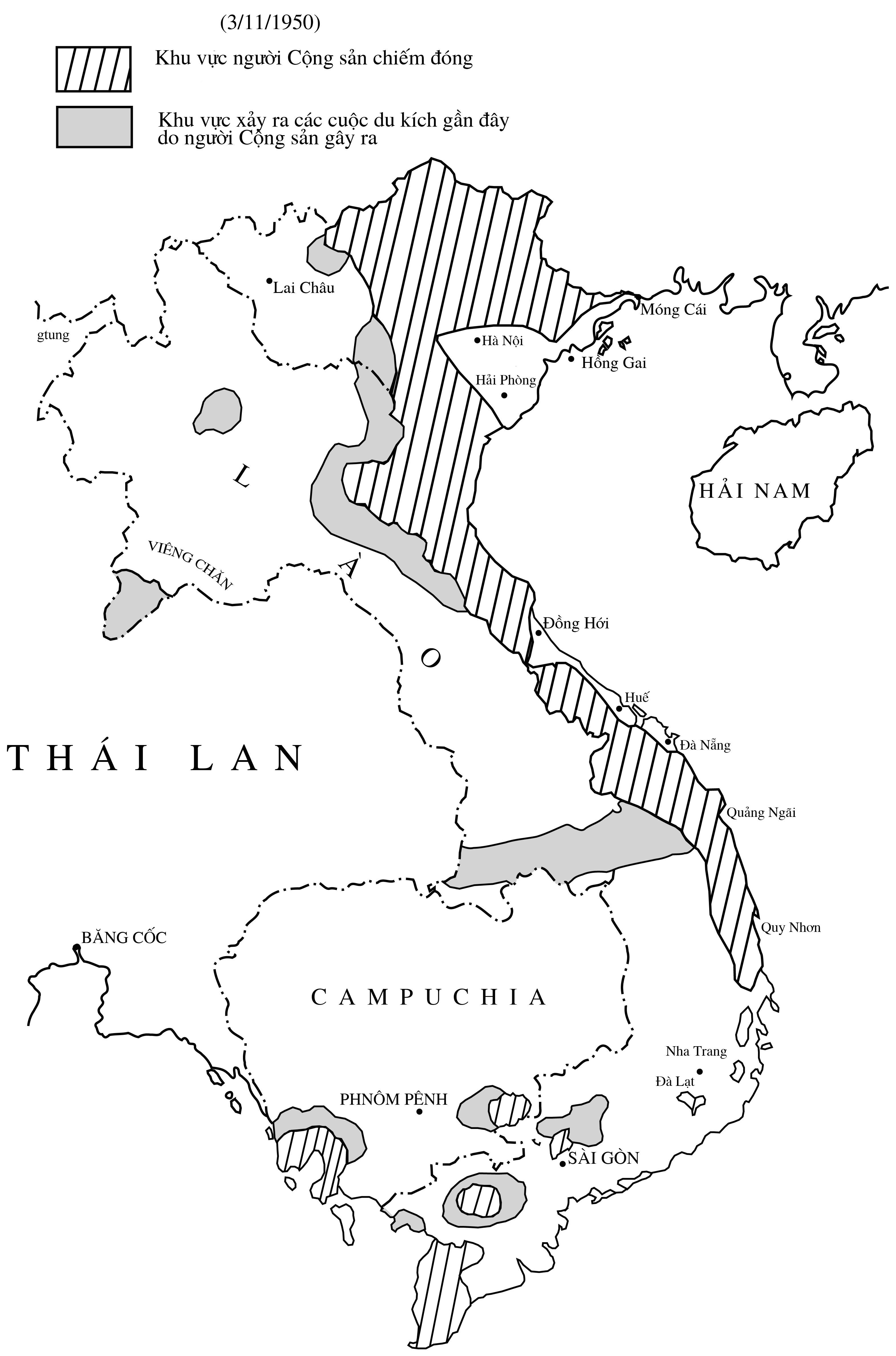 Map displaying dissident activities in Indochina as of 3 November 1950